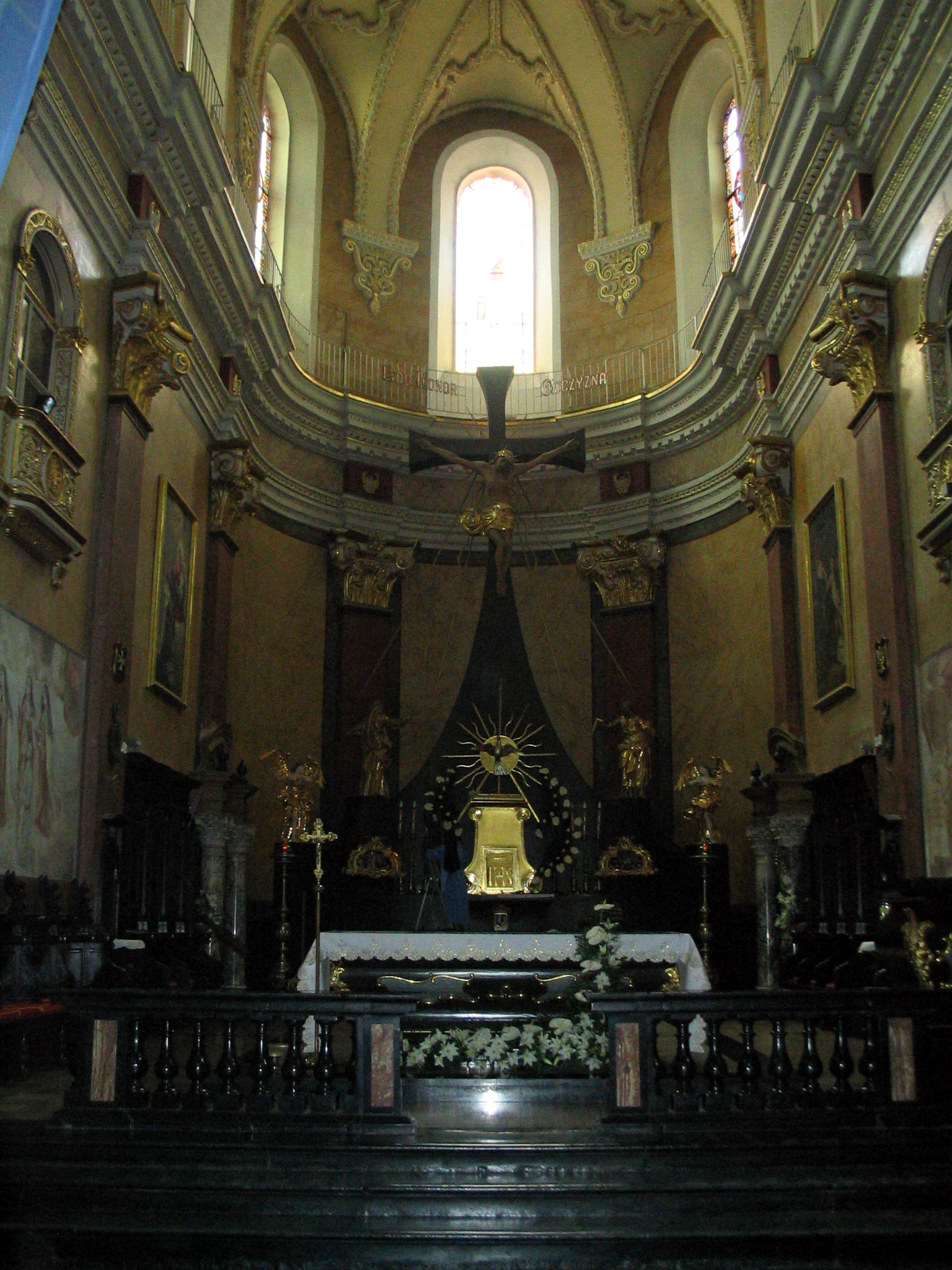 Carmelitan Church in Przemyśl, Poland.